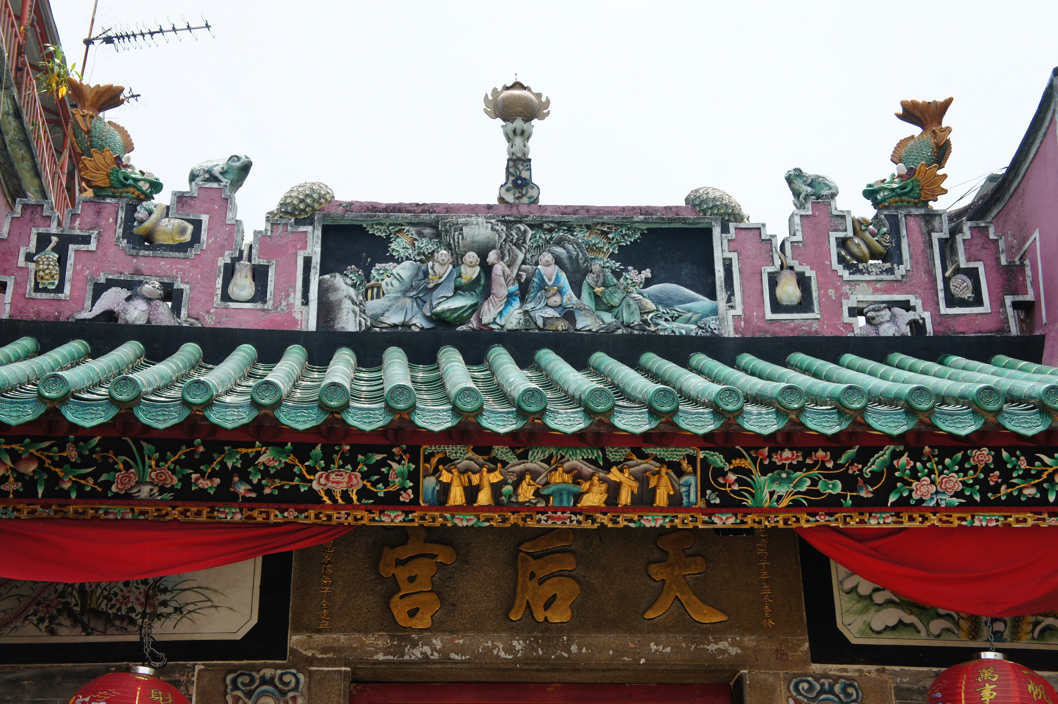 Tin Hau Temple, Peng Chau, Hong Kong.